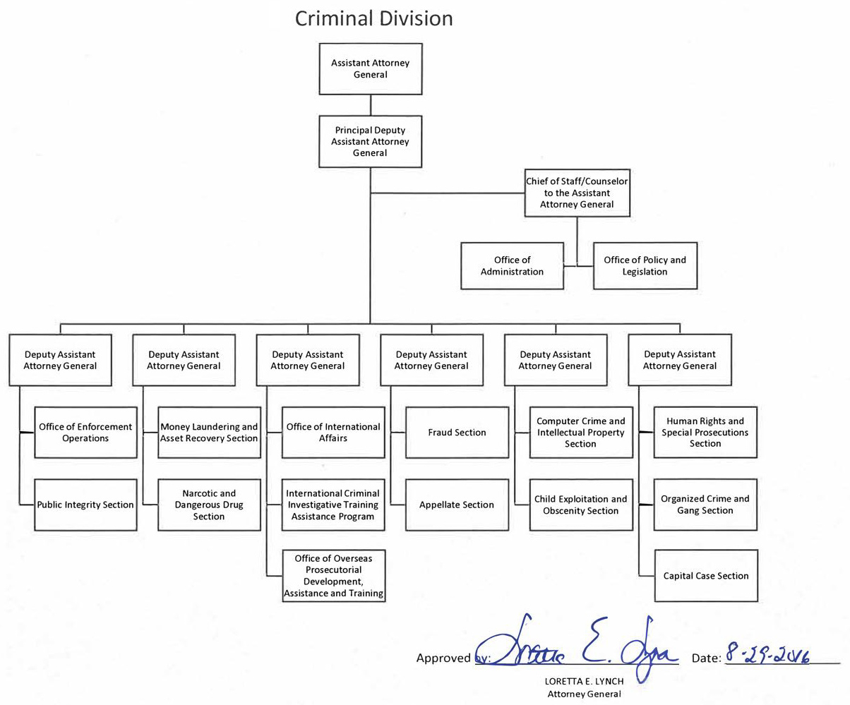 Organizational Chart of the United States Department of Justice, Criminal Division, approved by former US Attorney General Loretta Lynch (signed and dated)